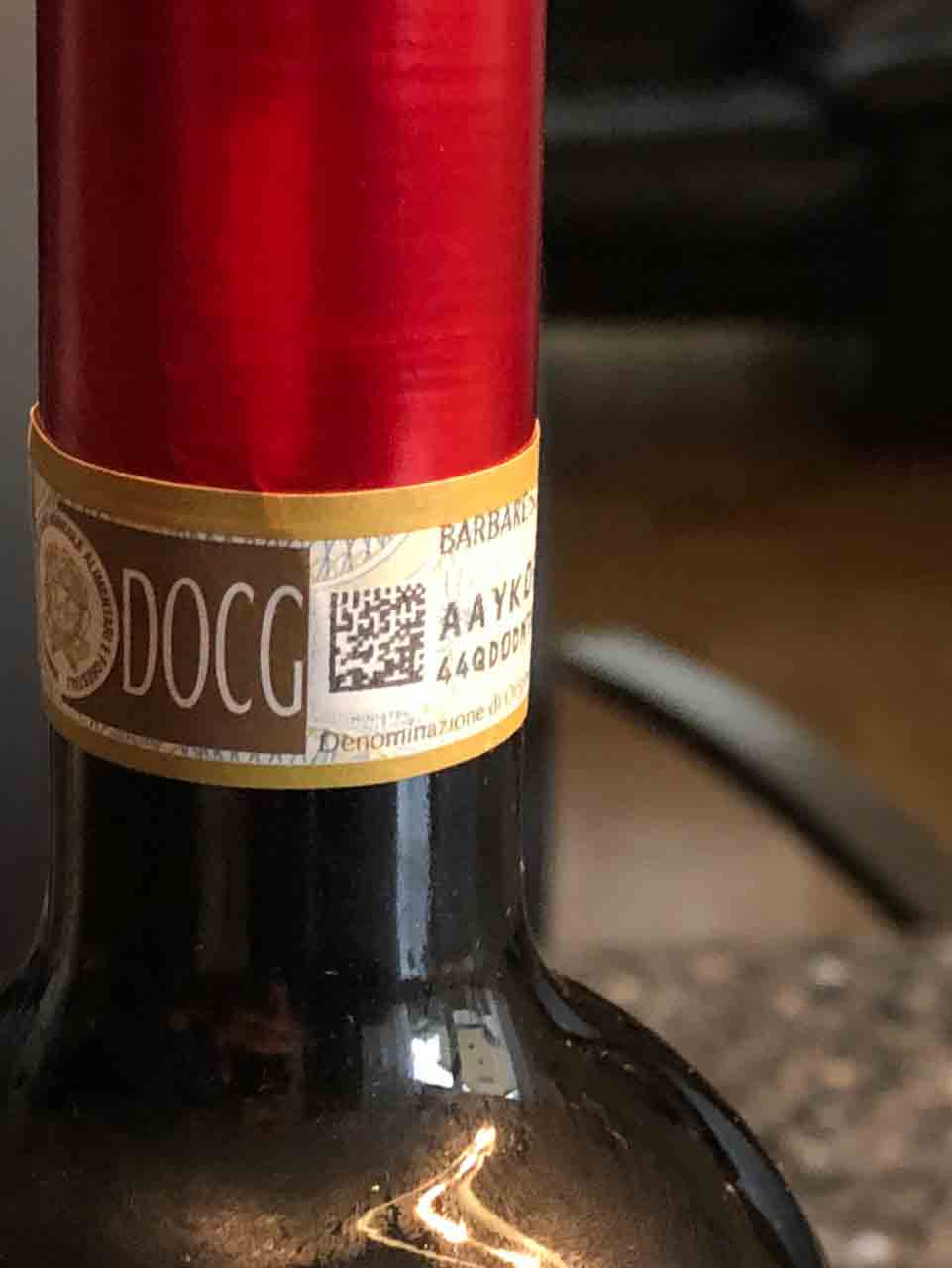 DOCG-Label on a bottle of Barbaresco